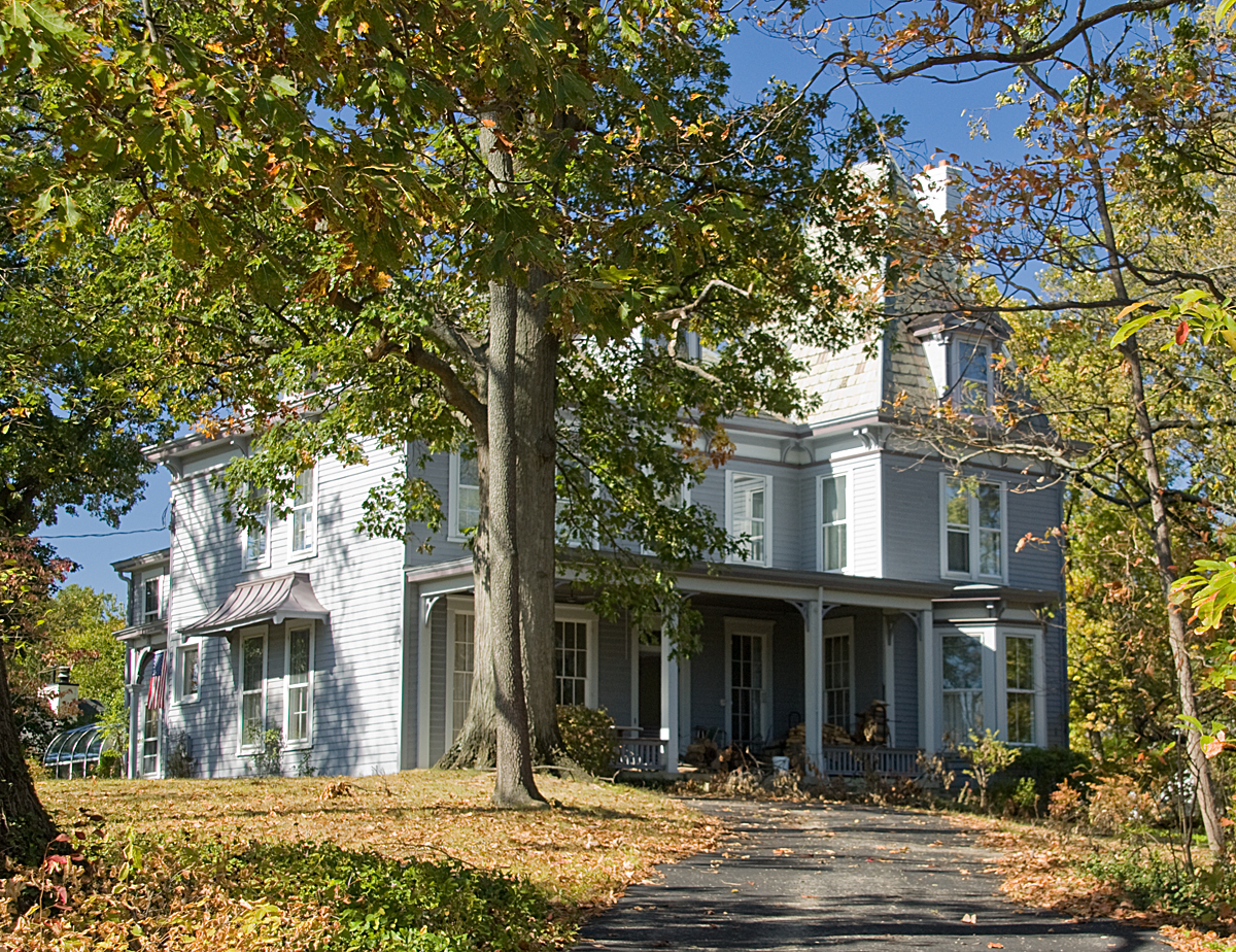 Luethstrom Hurin house in Wyoming, OH. Photo by Greg Hume